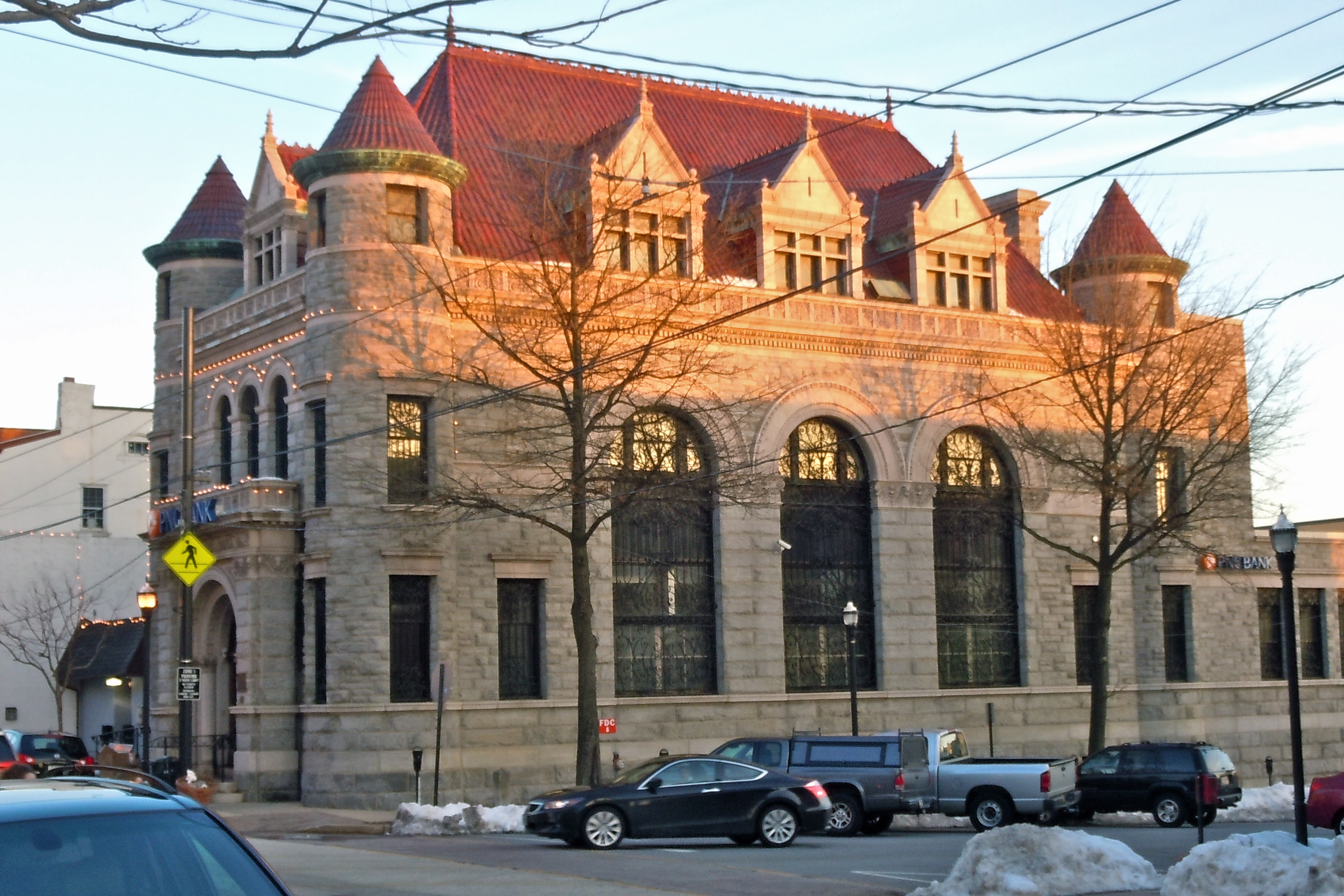 Bank (now PNC) built c. 1900 in Media, Pennsylvania